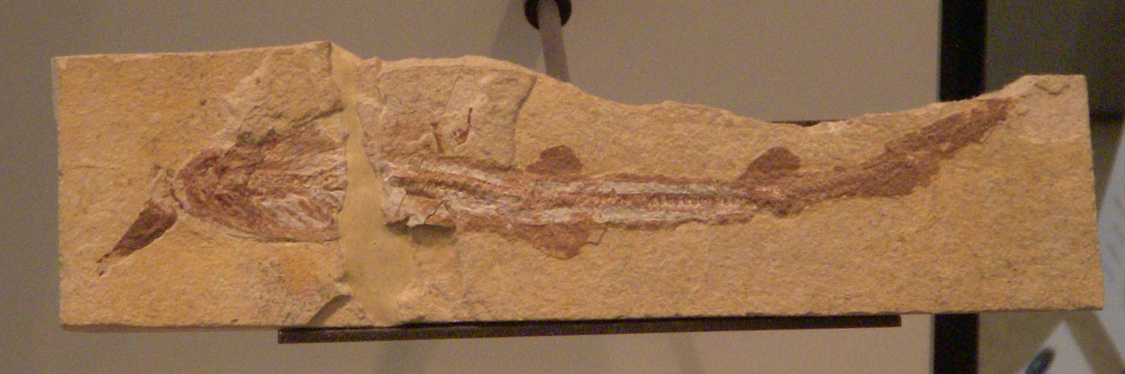 Fossil of Scyliorhinus elongatus (specimen AMNH 13983) in the American Museum of Natural History.